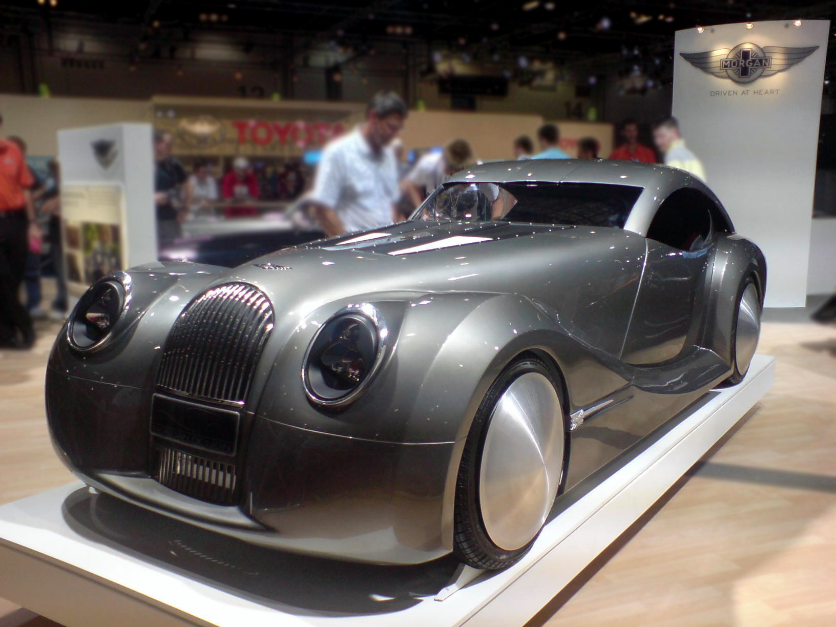 The Morgan LIFEcar at the 2008 British International Motor Show